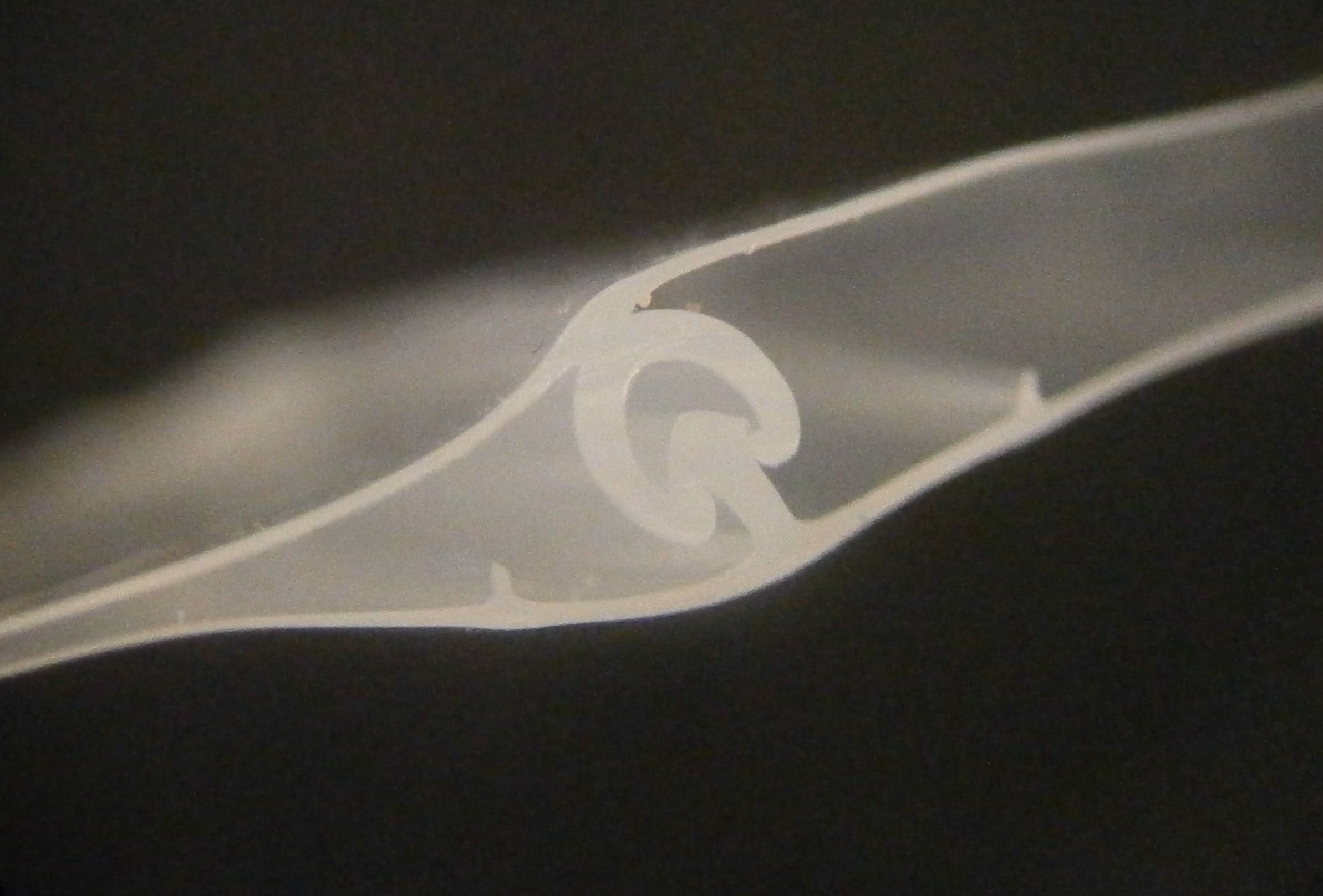 Ziploc Close-UP intersection